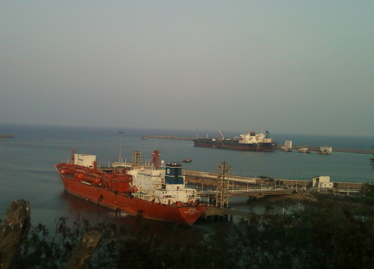 View of Ships at Visakhapatnam (Vizag) Harbour, Andhra Pradesh, India